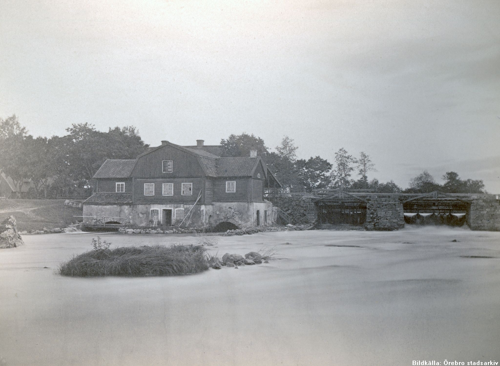 The southern mill at Snavlunda, Örebro, Sweden